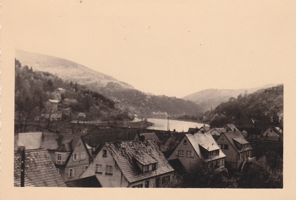 Ziegelhausen at 1937 viewing westward